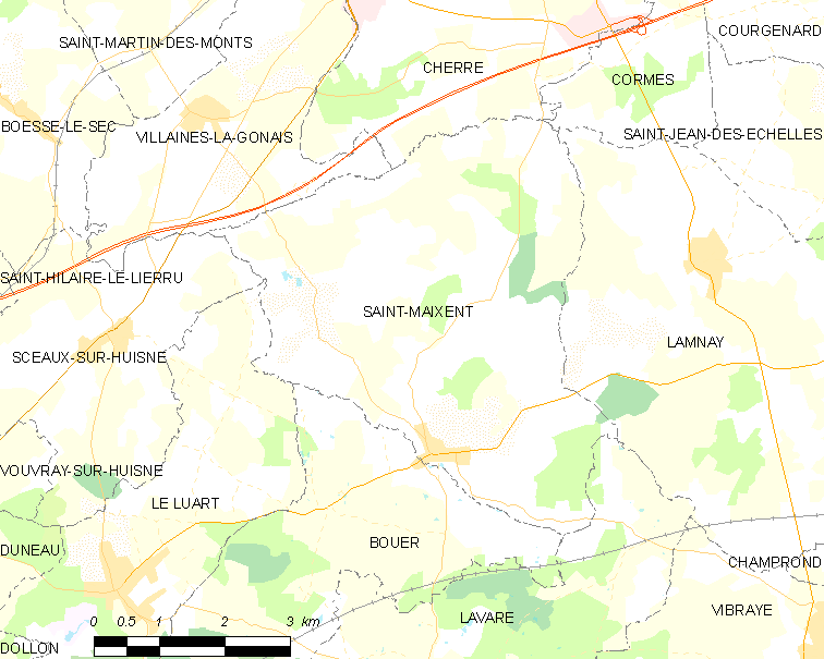 Map of French municipality